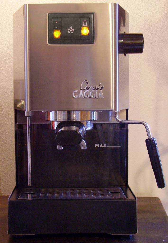 Gaggia Classic Coffee, model 10/2010